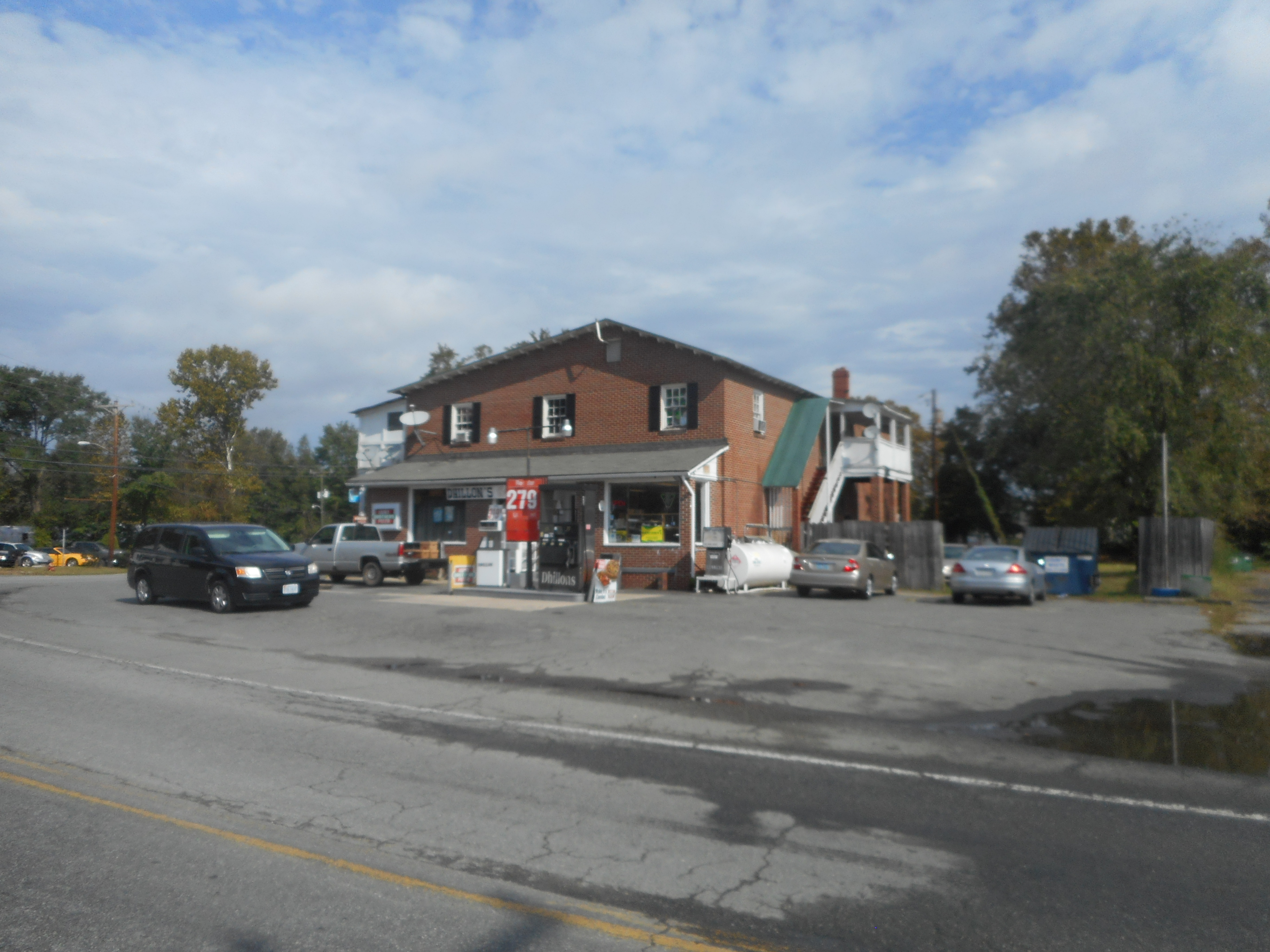 Dhillon's Grocery, or Dhillon's Convenience Store, a no-frills gas station and general store on the southeast corner of Antioch Road (Virginia Secondary Route 628) and Colonial Road (Virginia Secondary Route 722) in Milford, Virginia.